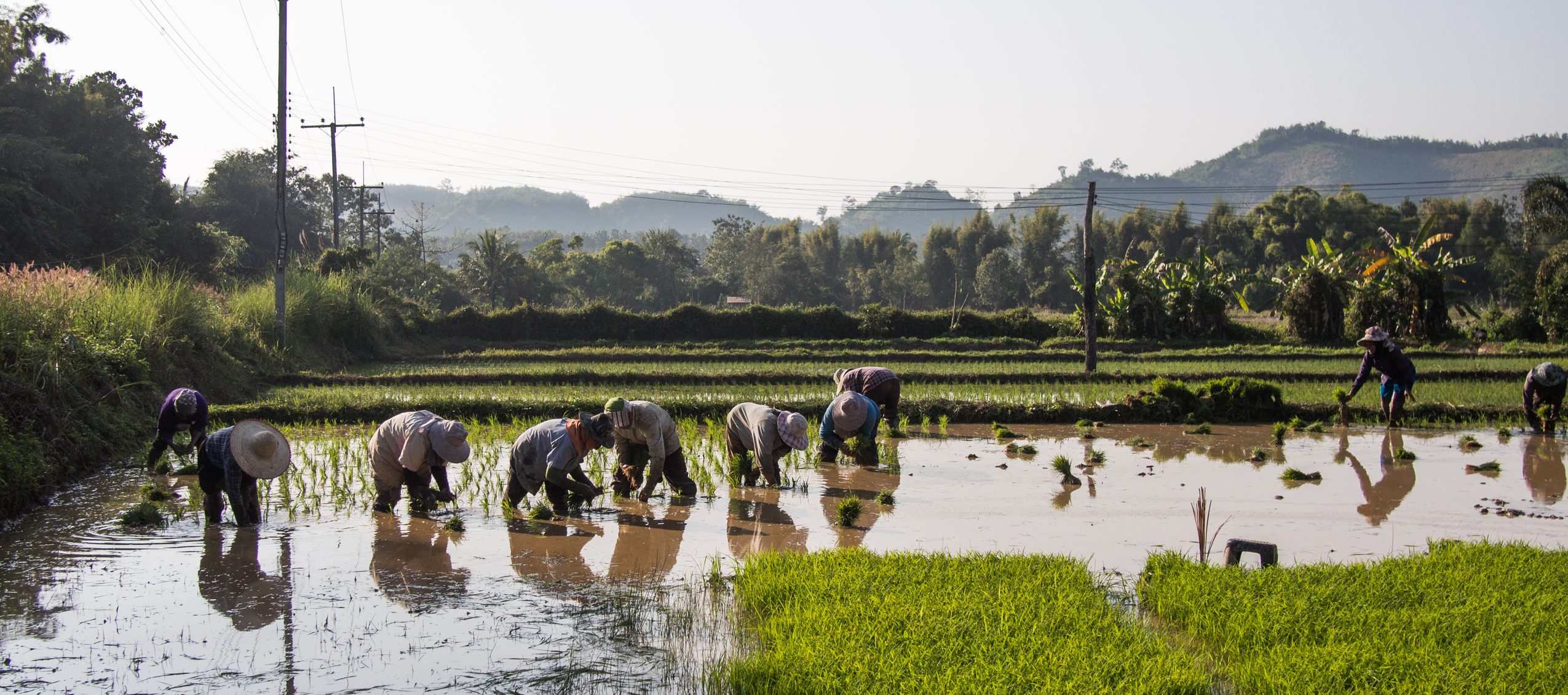 Transplanting rice seedlings in Mae Chan District, Chiang Rai Province. The sowing beds (where the seedlings have been taken from) can be seen in the foreground.